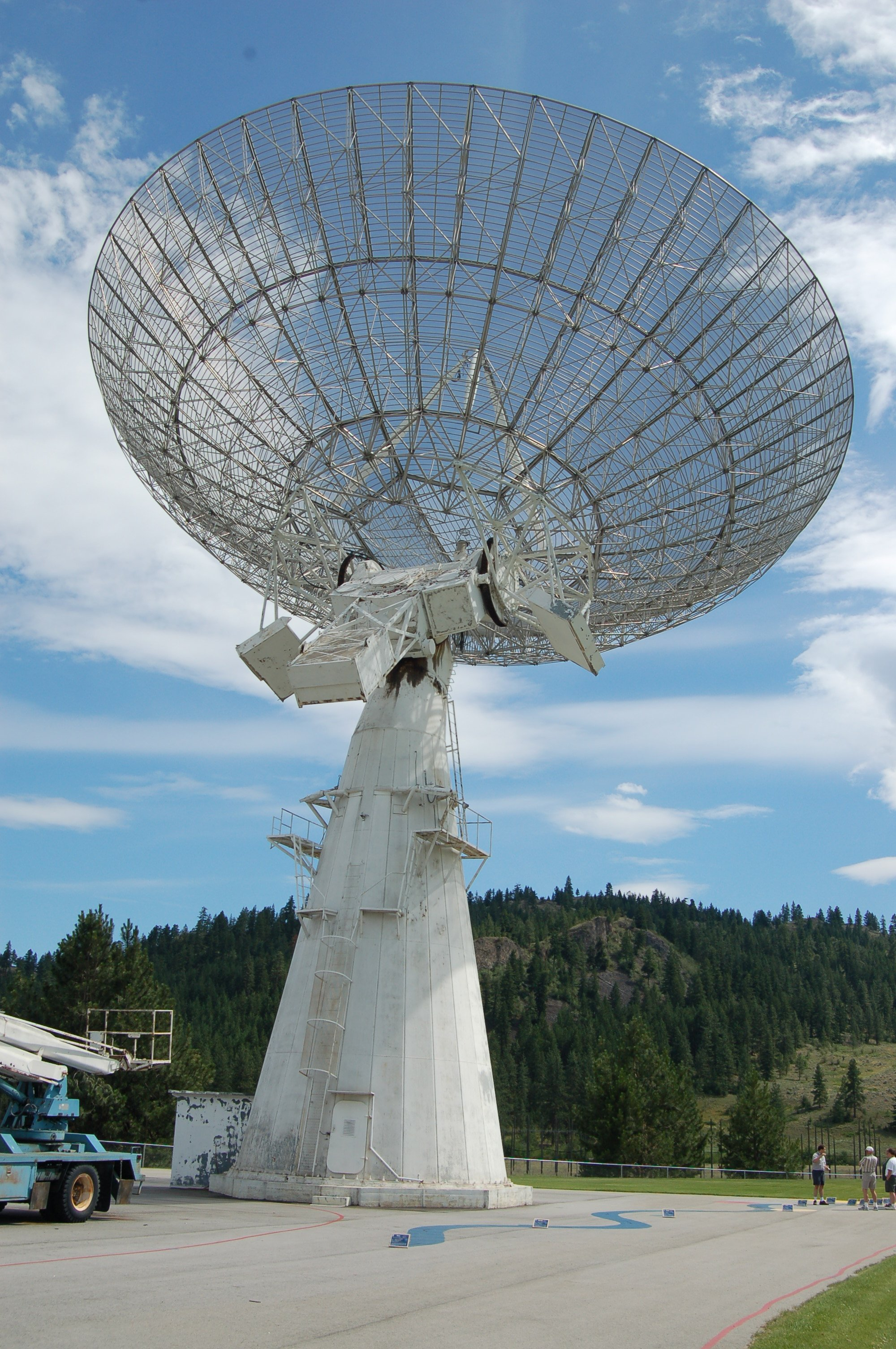 26m dish at the Dominion Radio Astrophysical Observatory.